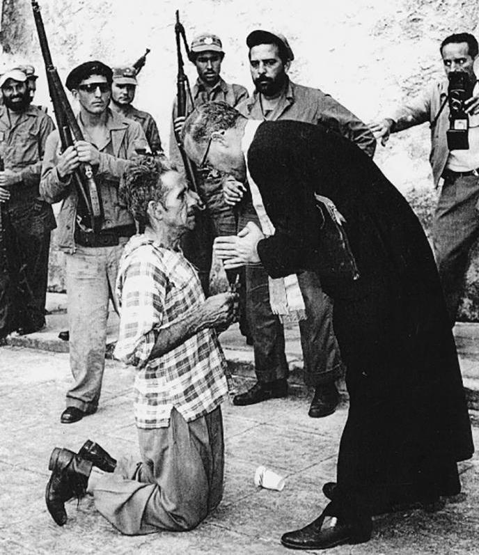 Jose "Pepe Caliente" Rodriguez, a former corporal in the army of Fulgencio Batista, receives the last rites from Father Domingo Lorenzo at San Severino Castle in Matanzas. Rodriguez faced execution by firing squad after having been convicted of the murder of two rebel members of Fidel Castro's 26th of July Movement. Lopez received the 1960 Pulitzer Prize for Photography for his sequence of four photographs of the scene, of which this was cited as "the principal picture".